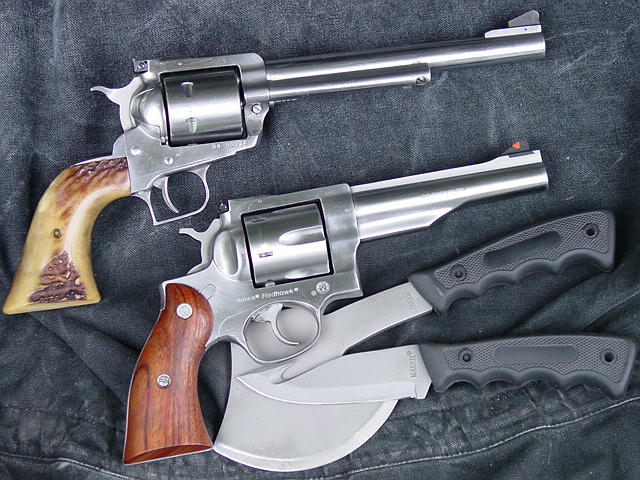 Post 1973 Super Black Hawk and Redhawk